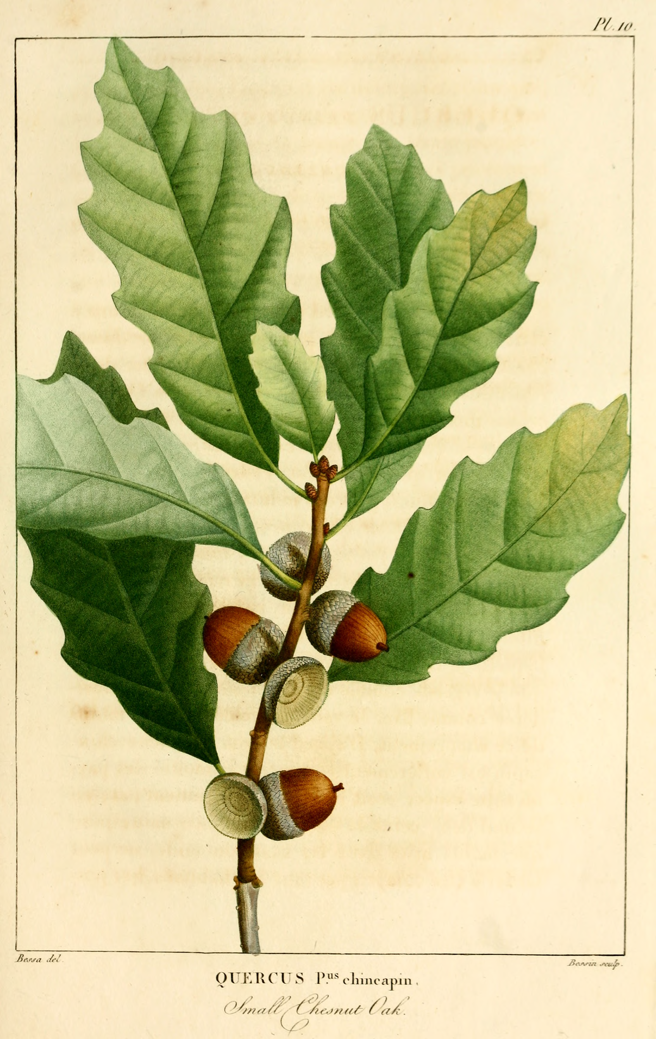 Quercus prinoides - dwarf chinkapin oak or scrub chestnut oak.Original caption: Quercus prinus chincapin - Small Chestnut Oak (Petit Chêne châtaignier)